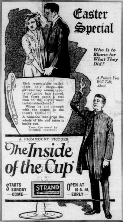 Newspaper advertisement for the American drama film The Inside of the Cup (1921), on page 7 of the March 26, 1921 Duluth Herald.